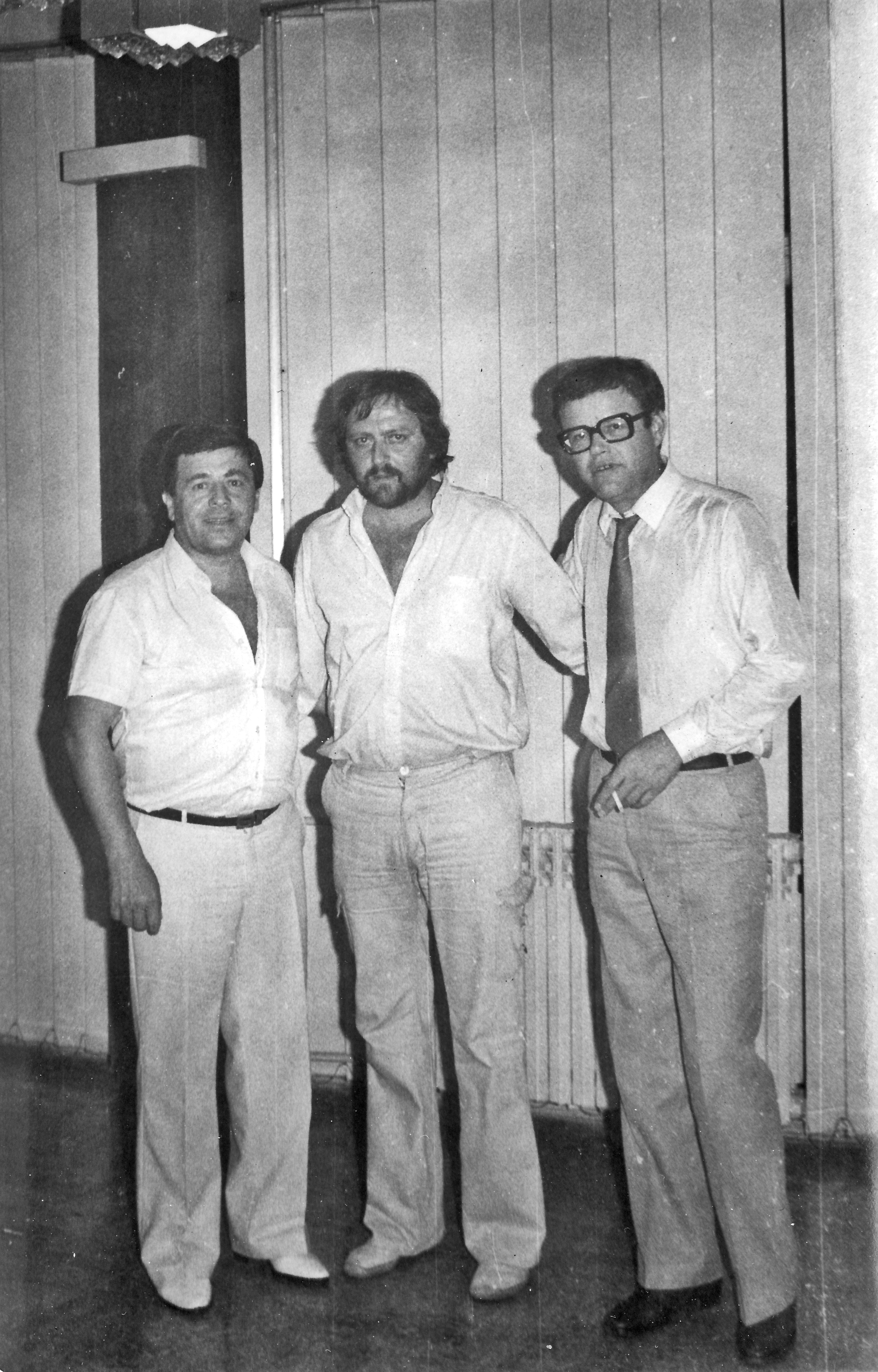 Meho Puzić (on the left) and Leo Martin (on the right), in Niš (Serbia), early 80's